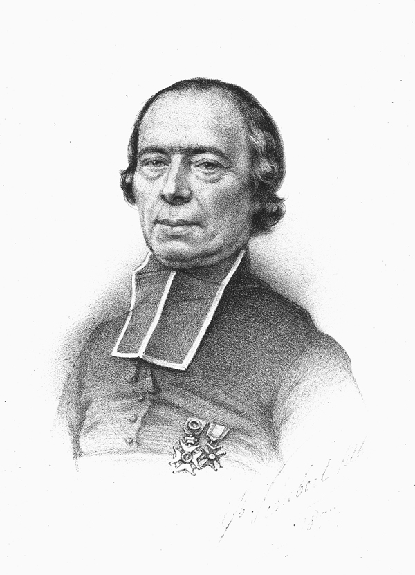 Constant Guillaume Van Crombrugghe, flemish canon and founder of Josephites and Subsidiaries of the Sisters of Mary and Joseph.